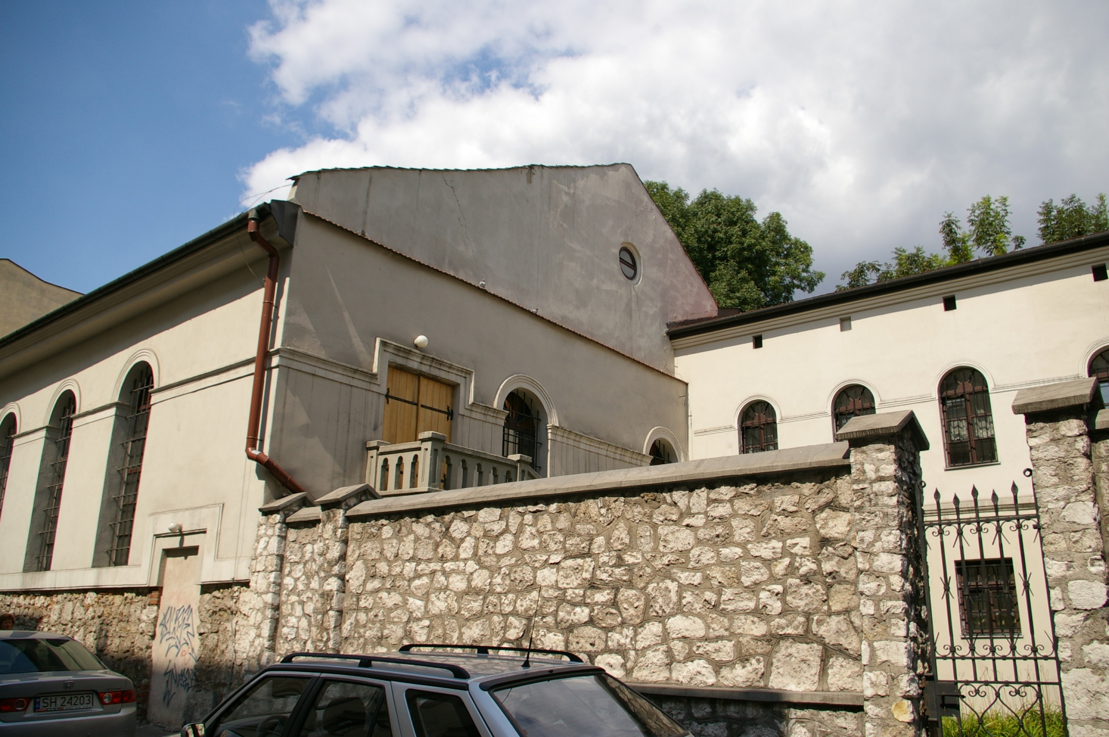 Kupa Synagogue in Warszauera Street, Kraków